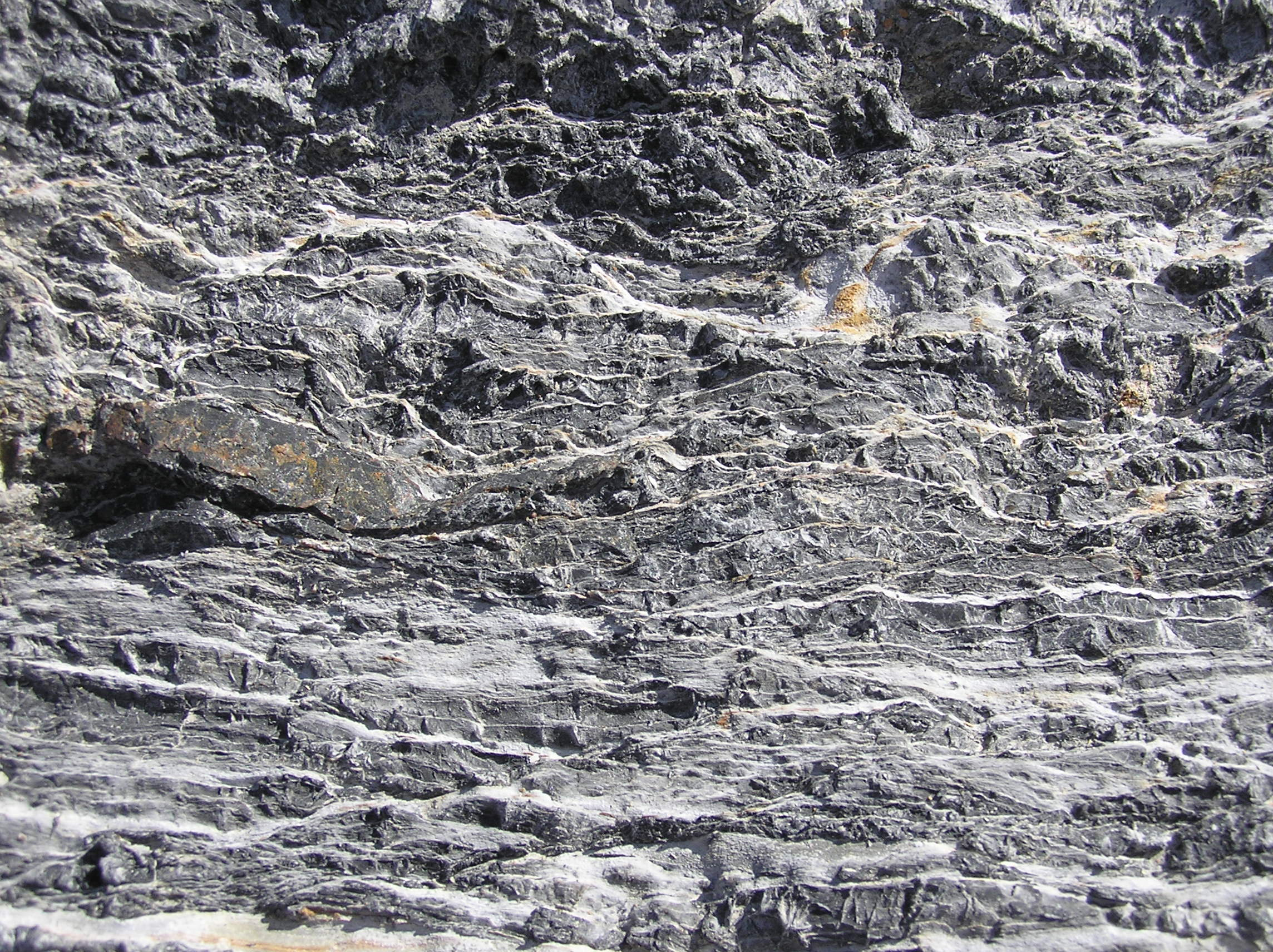 Narooma Chert about 30 cm across